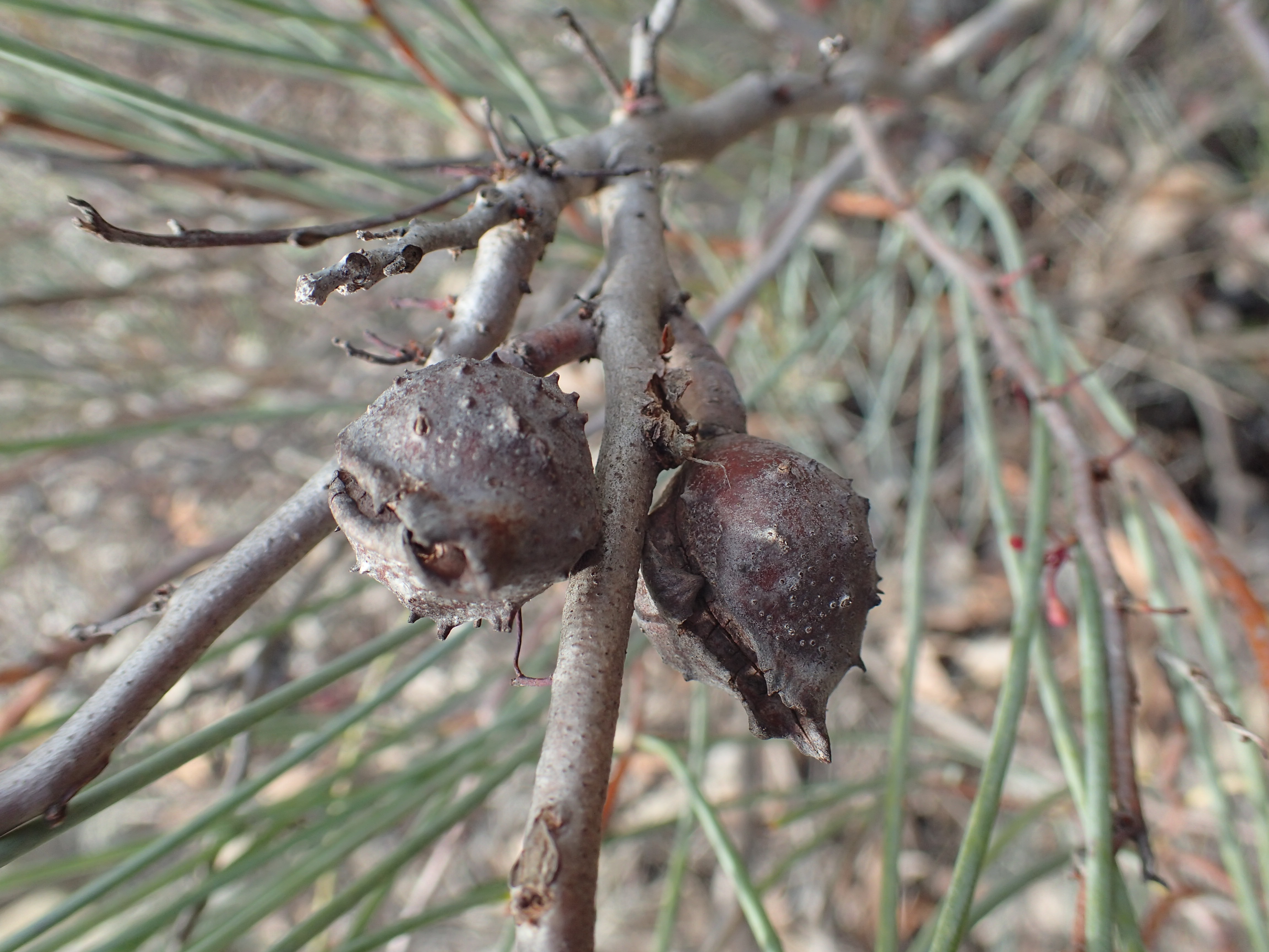 Fruit of Hakea strumosa in Kings Park, Perth